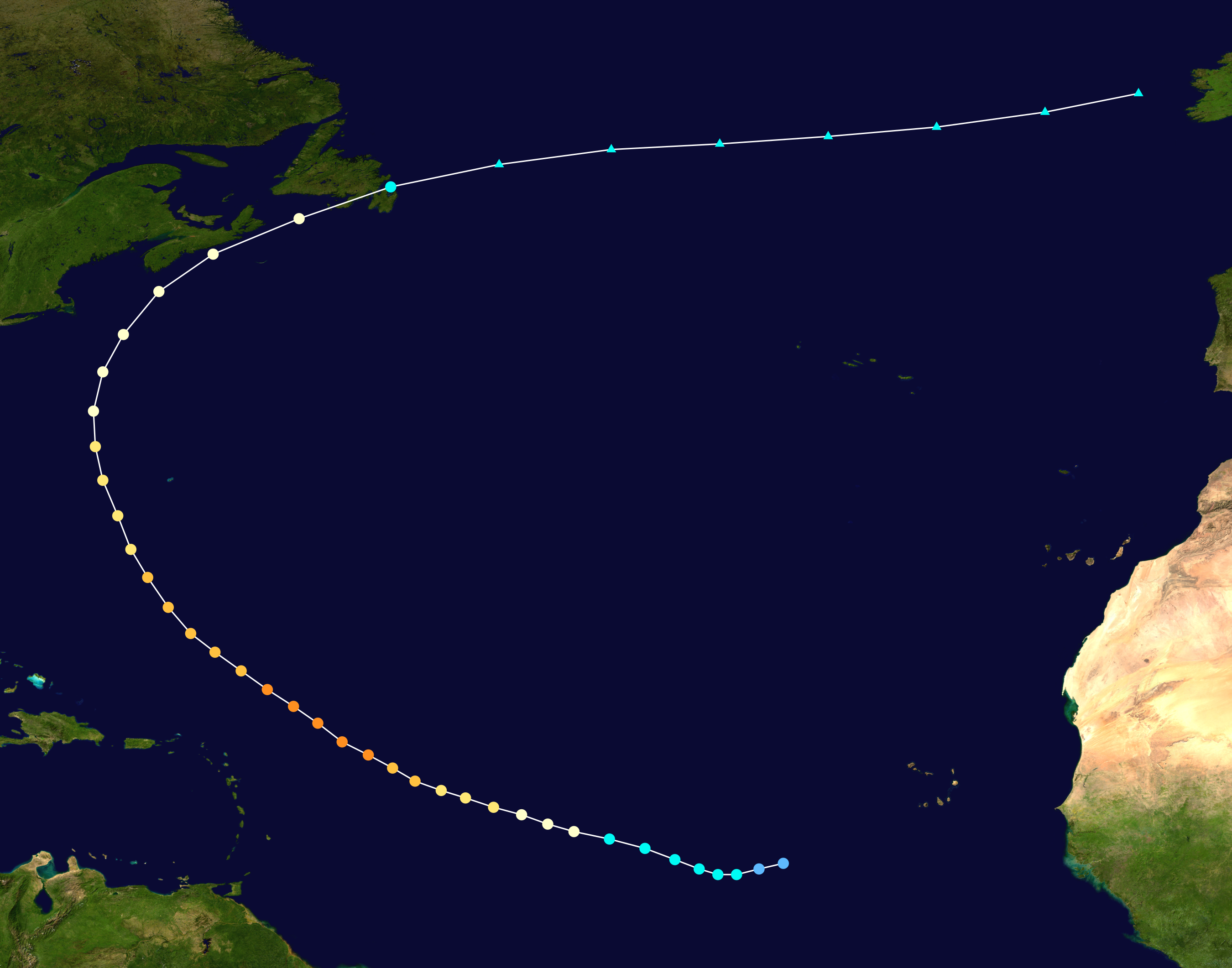 Track map of Hurricane Bill of the 2009 Atlantic hurricane season. The points show the location of the storm at 6-hour intervals. The colour represents the storm's maximum sustained wind speeds as classified in the Saffir–Simpson scale (see below), and the shape of the data points represent the nature of the storm, according to the legend below. Saffir–Simpson scale Tropical depression≤38 mph≤62 km/h Category 3111–129 mph178–208 km/h Tropical storm39–73 mph63–118 km/h Category 4130–156 mph209–251 km/h Category 174–95 mph119–153 km/h Category 5≥157 mph≥252 km/h Category 296–110 mph154–177 km/h Unknown Storm type Tropical cyclone Subtropical cyclone Extratropical cyclone / Remnant low / Tropical disturbance / Monsoon depression